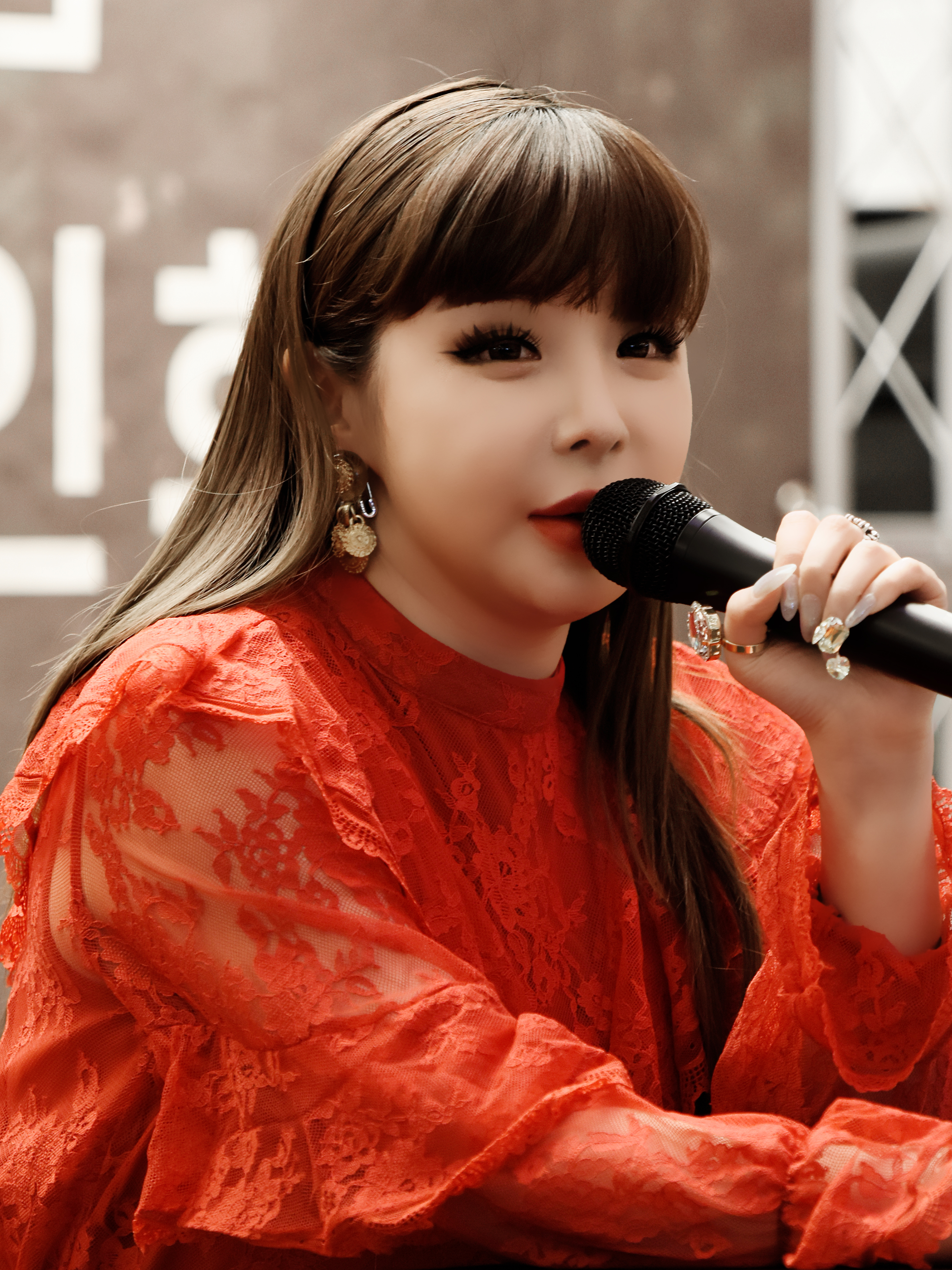 Park Bom at a fansign event at Lotte Department Store in Jamsil on March 30, 2019.